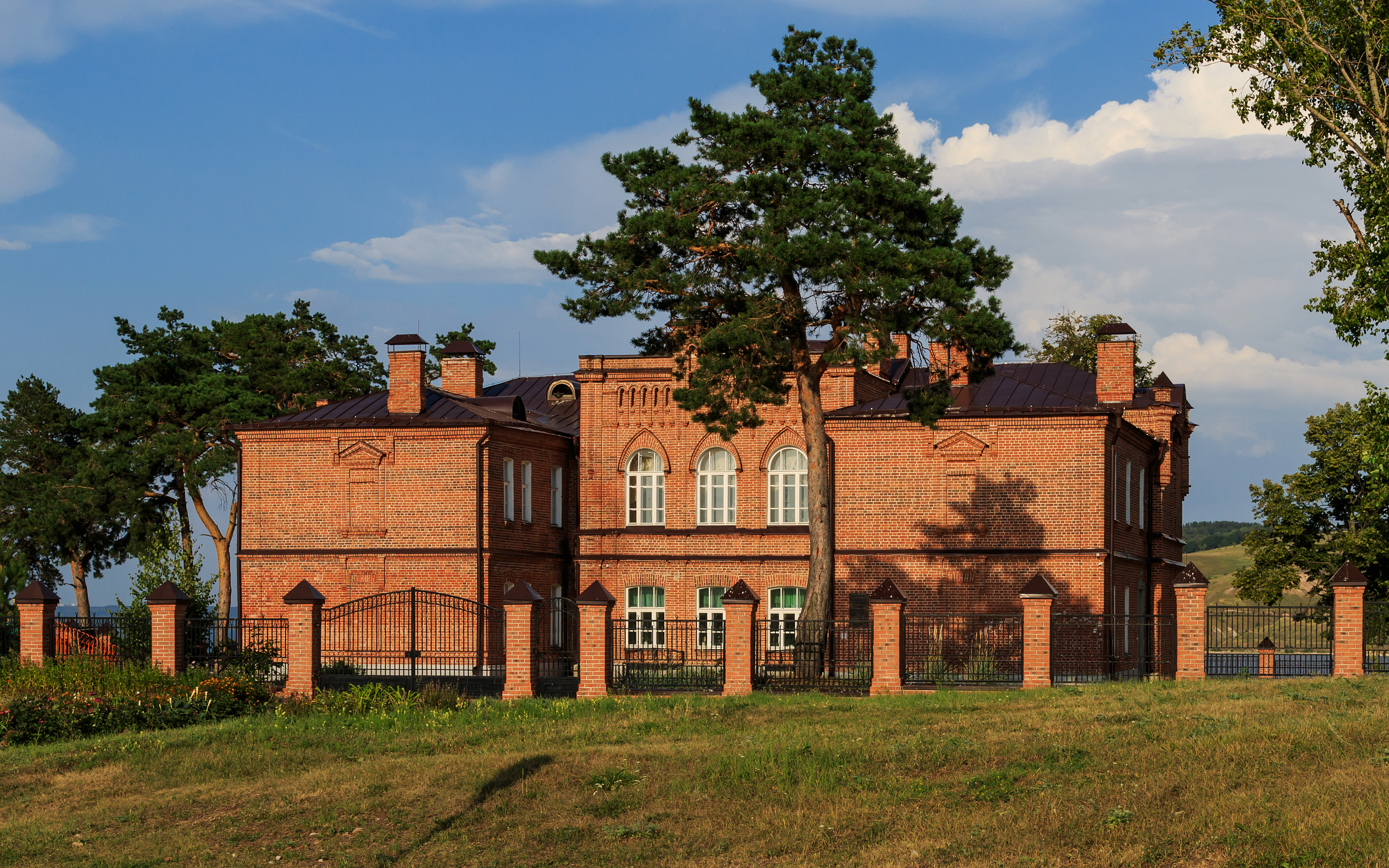 Former school building on Moskovskaya Street. Sviyazhsk, Tatarstan, Russia.